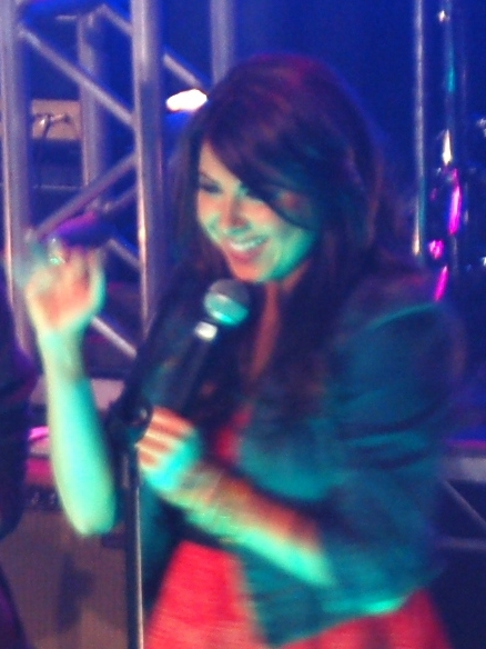 with the Victorious cast performing at Avalon Hollywood.